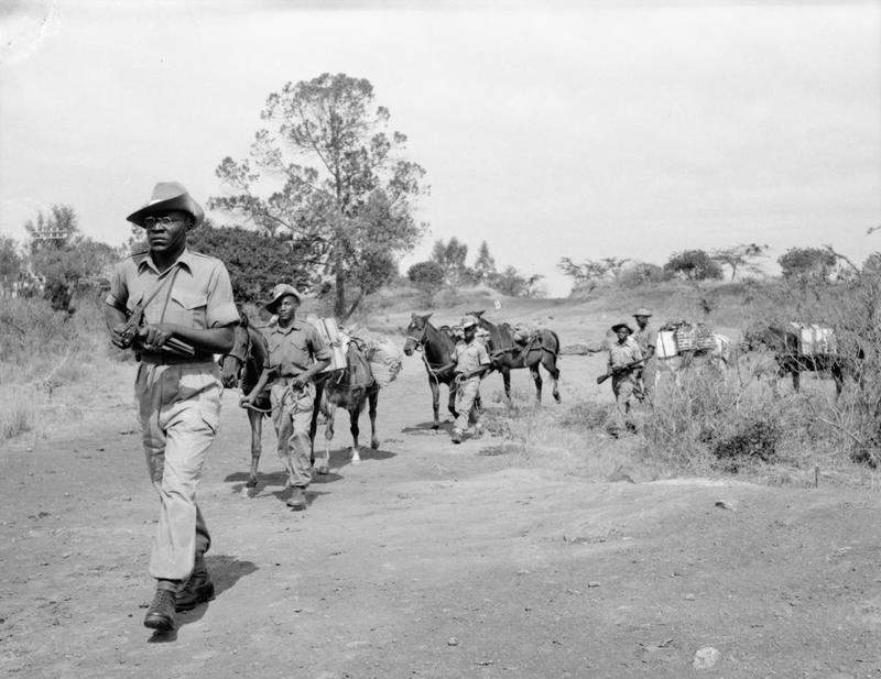 Troops of the King's African Rifles carry supplies on horseback. They are escorted by armed soldiers on watch for Mau Mau fighters.